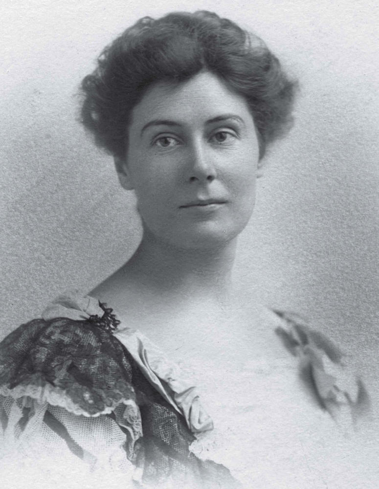 Ellen Newbold La Motte by Mesny black and white photograph, circa 1902 Courtesy of the Alan Mason Chesney Medical Archives of the Johns Hopkins Medical Institutions